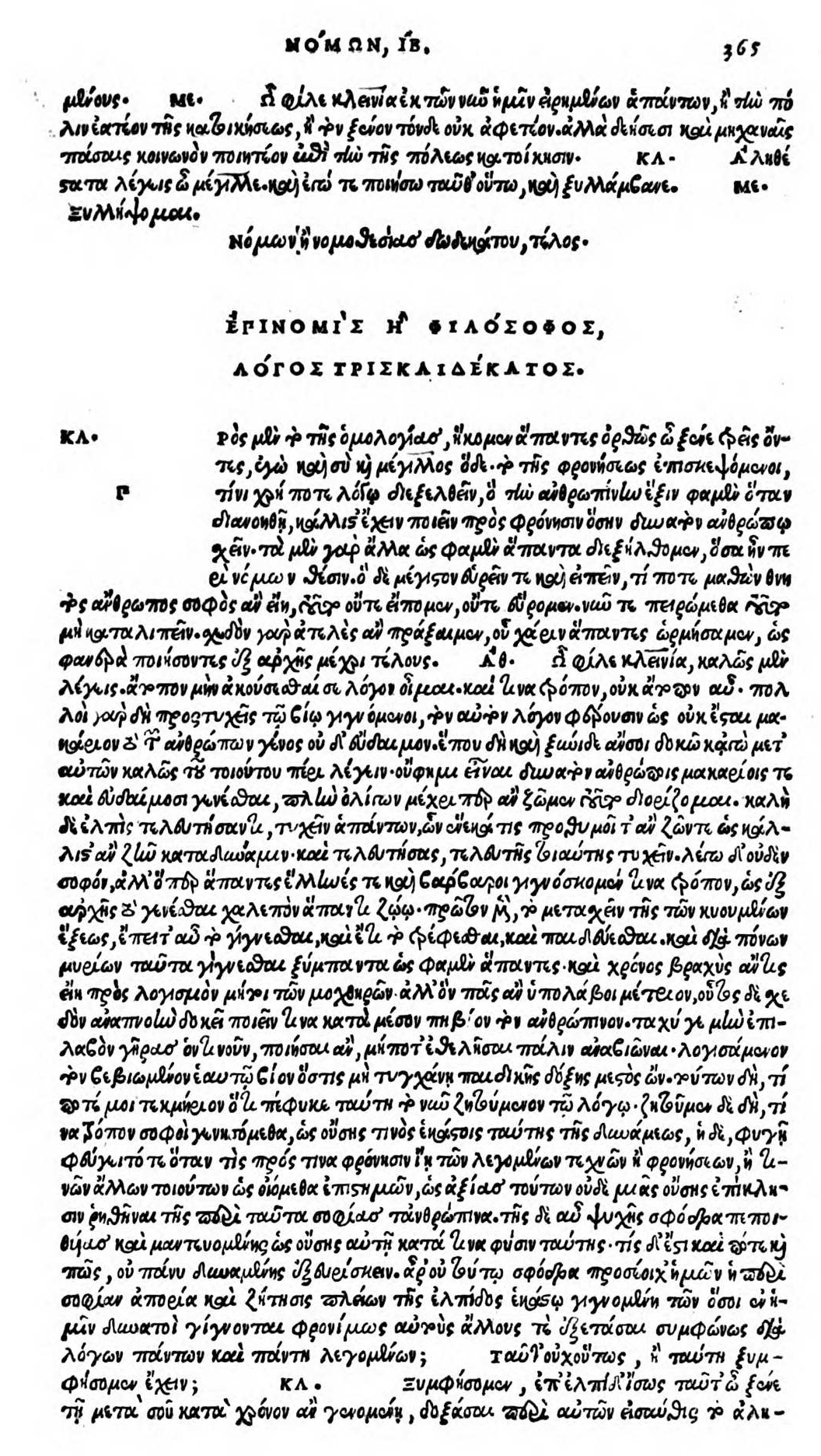 Epinomis beginning. Editio princeps, Venice 1513.